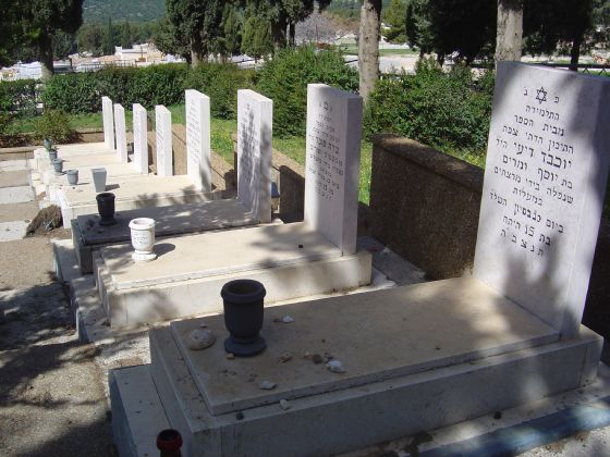 Ma'alot massacre (15/05/1974) victims on Zefat Cemetery